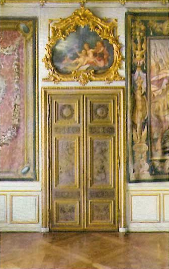 Postcard - Don Quijote hall